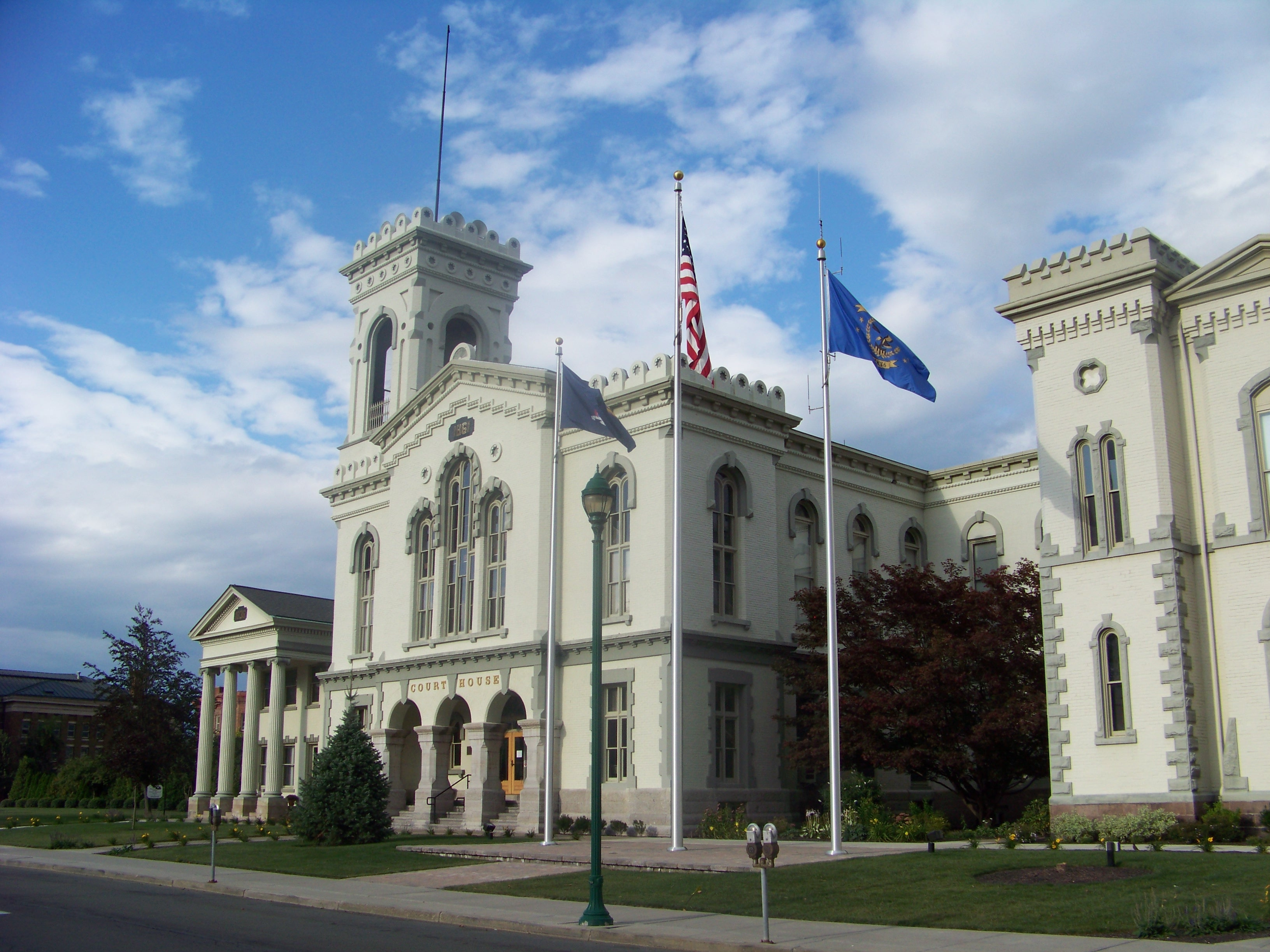 Chemung County Couthouse, Elmira, New York